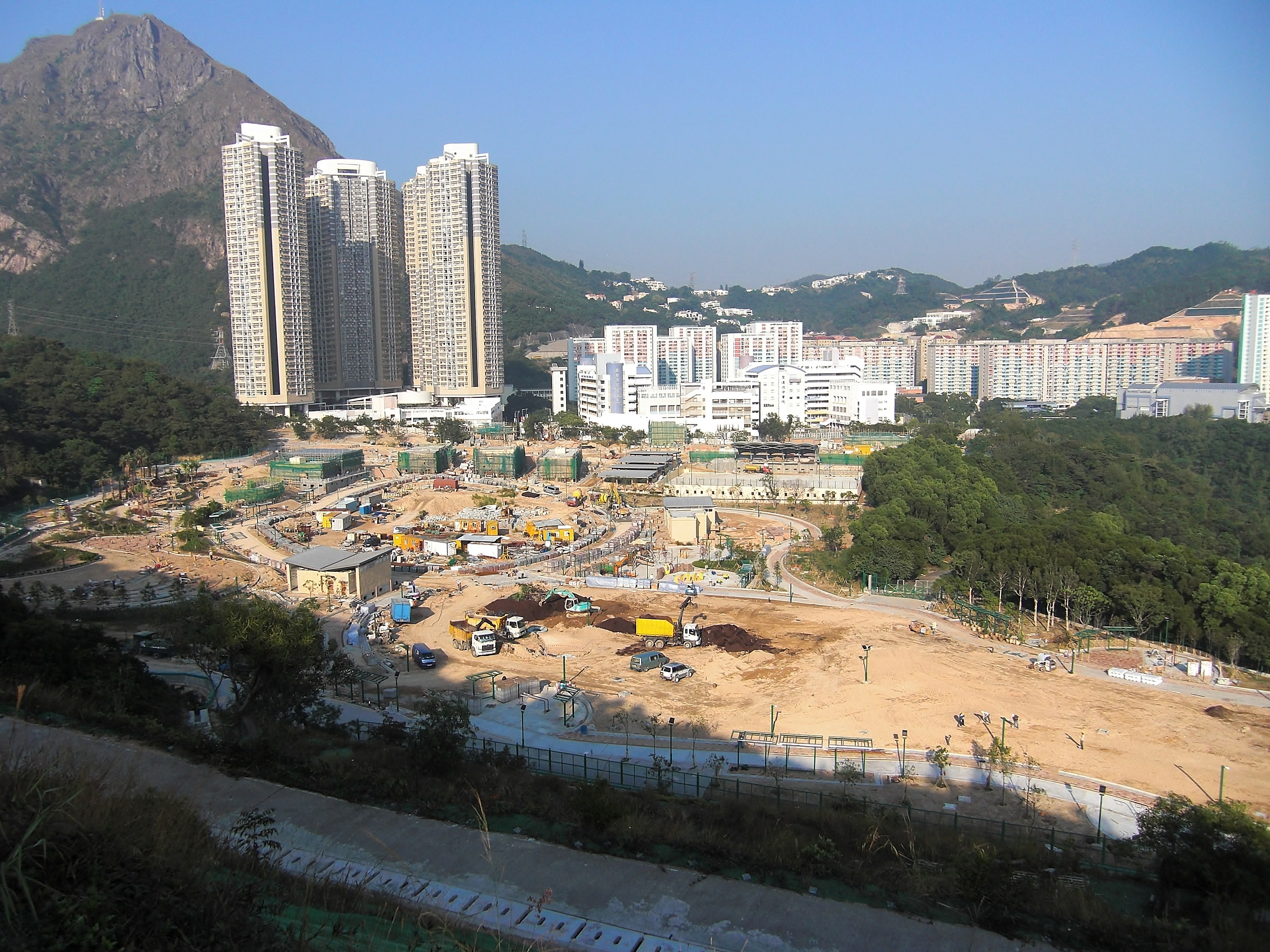 General View of the former Jordan Valley Landfill. The construction site of a recreation playground is seen.